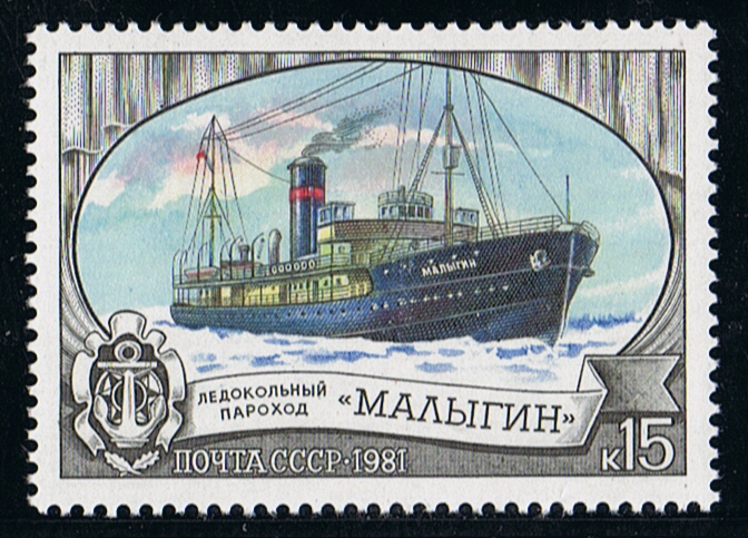 Icebreaker Malygin was a Russian and Soviet icebreaker ship of 3,200 tonnes displacement. She was named after Stepan Malygin. She was built in 1912.